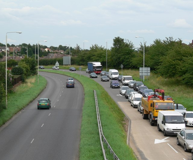 The A607 Newark Road